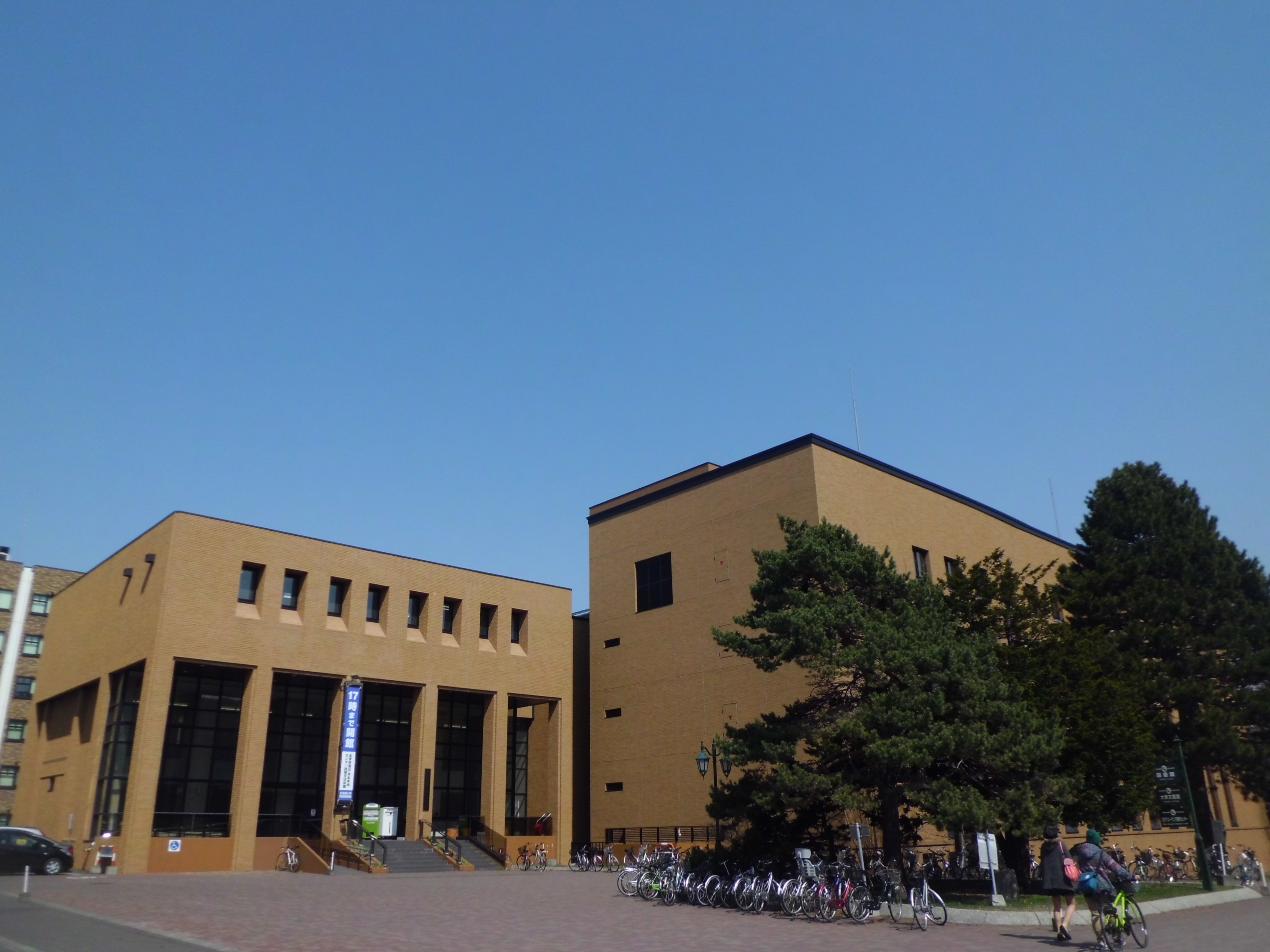 Main building of Hokkaido University Library